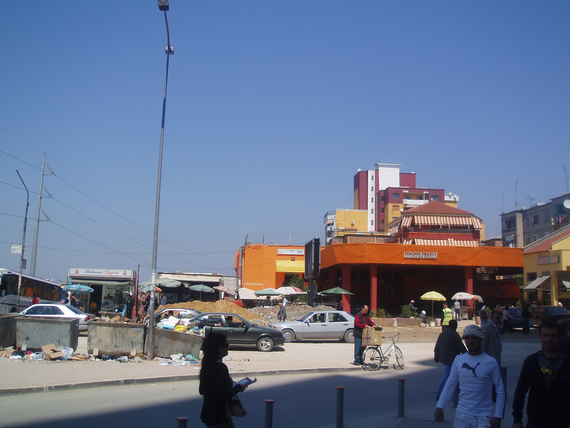 Train station of Tirana, Albania